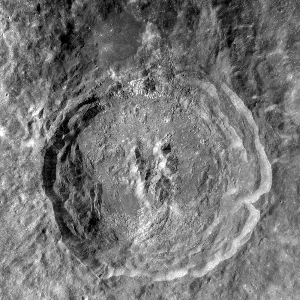 Apollo 16 Metric Camera image of King Crater. Image AS16-M-0891 [NASA/JSC/Arizona State University].